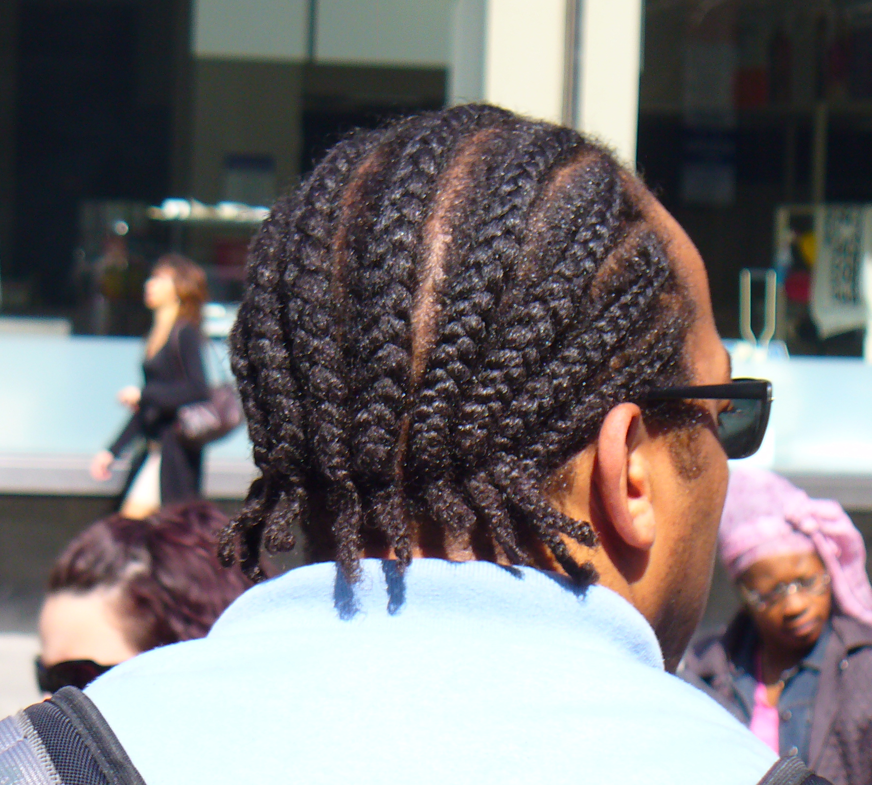 Cornrows in New York City